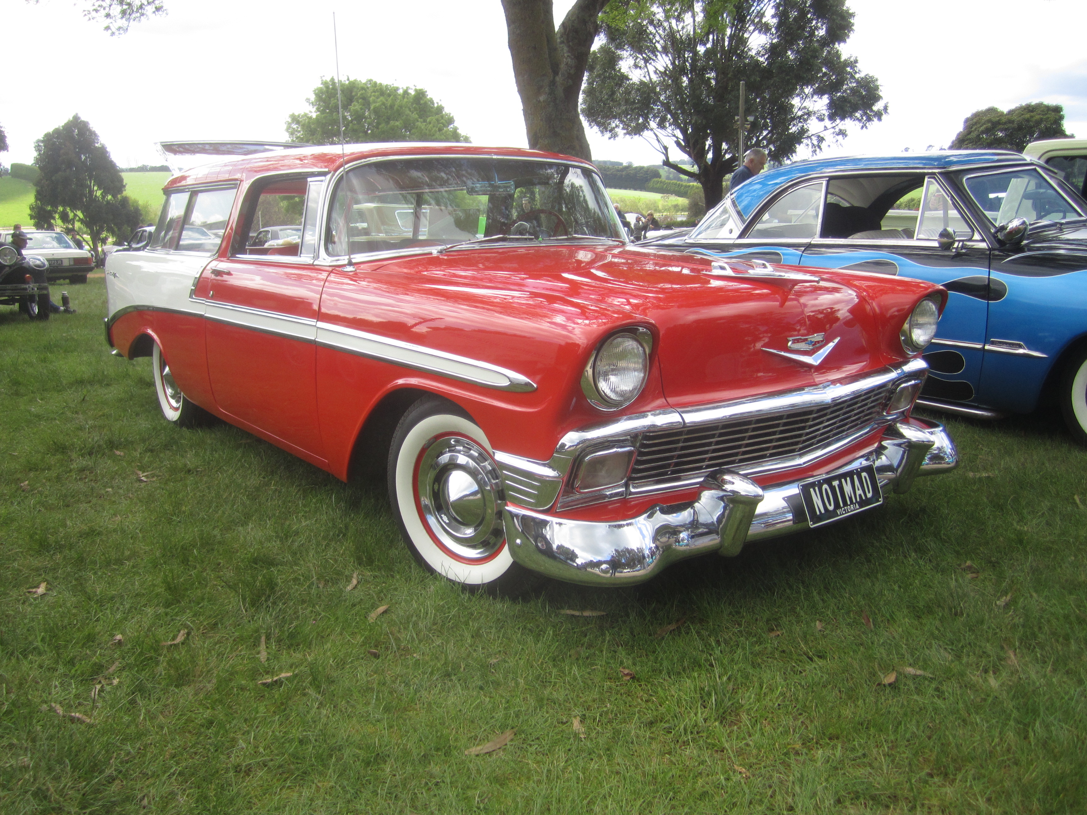 Available in Base 150, mid 210 & Belair. Bodys; Sedan, Coupe, 2 & 4 door Hardtop, Wagon & Convertible. Engine; 235 cu in 6 cyl & 265 cu in V8